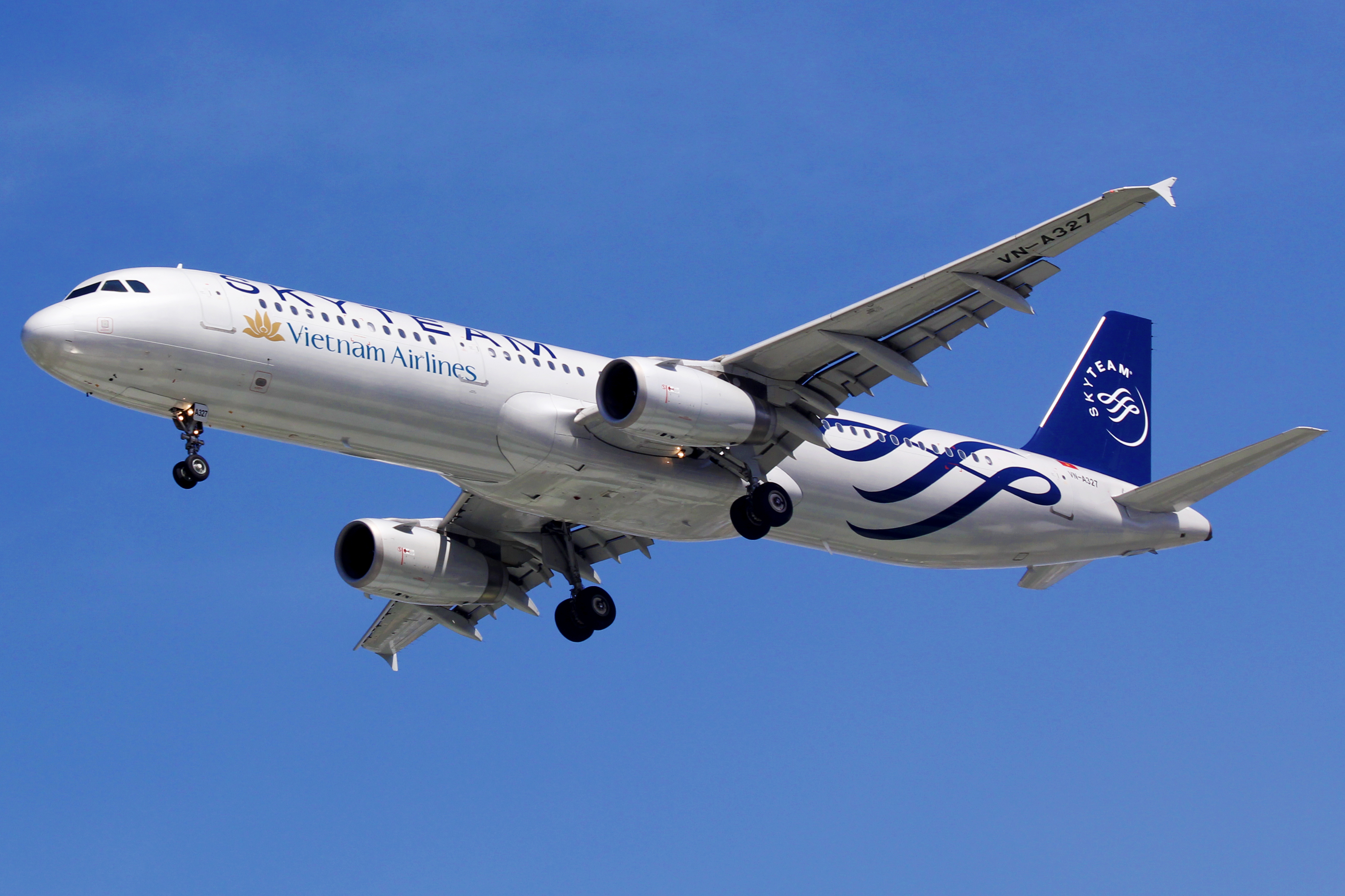 VN-A327 A321 Skyteam livery